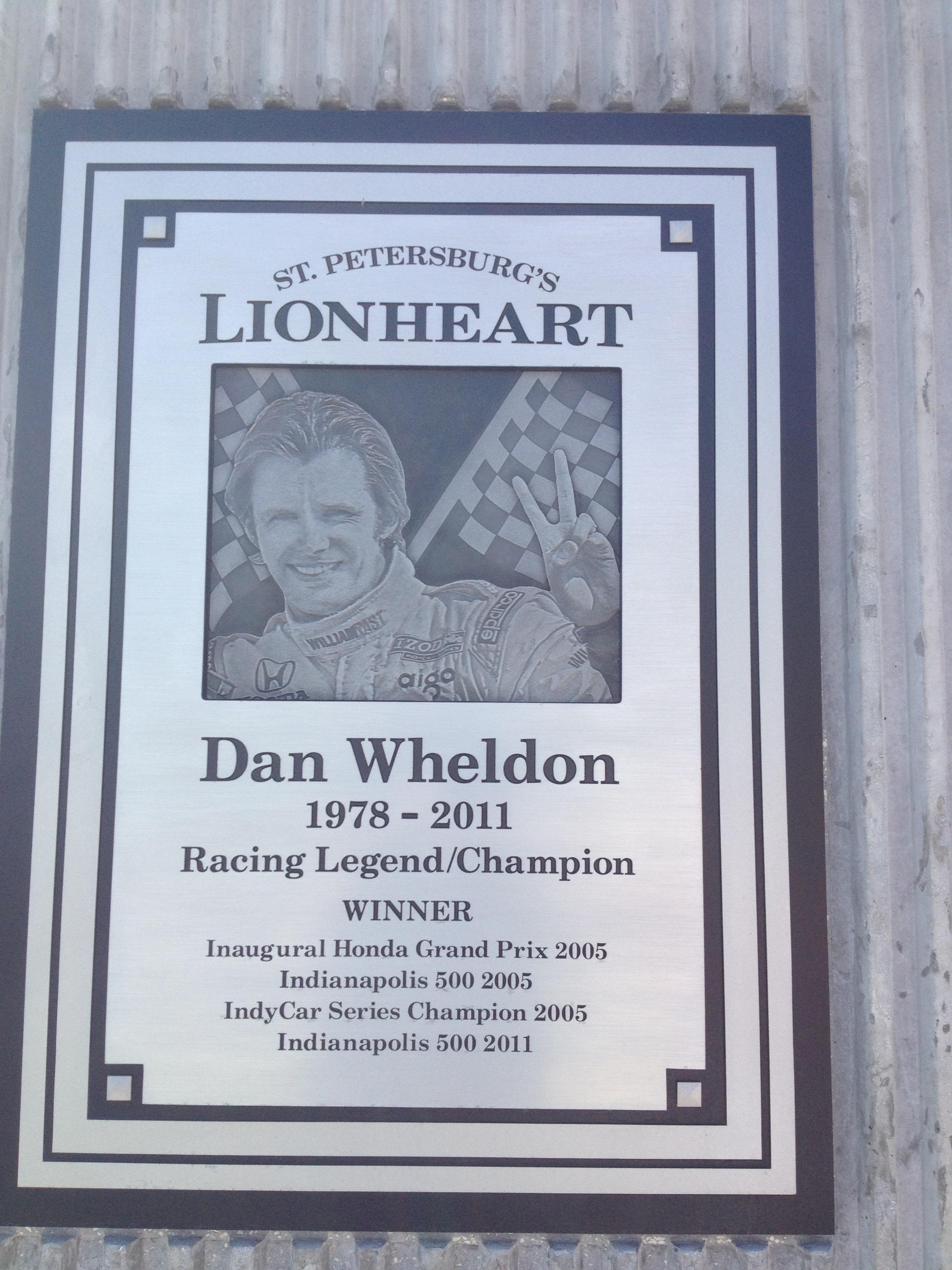 Memorial plaque for Dan Wheldon, located in St. Petersburg, Florida